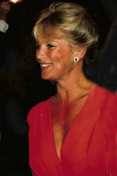 Linda Evans at Carousel Ball in Denver (cropped)